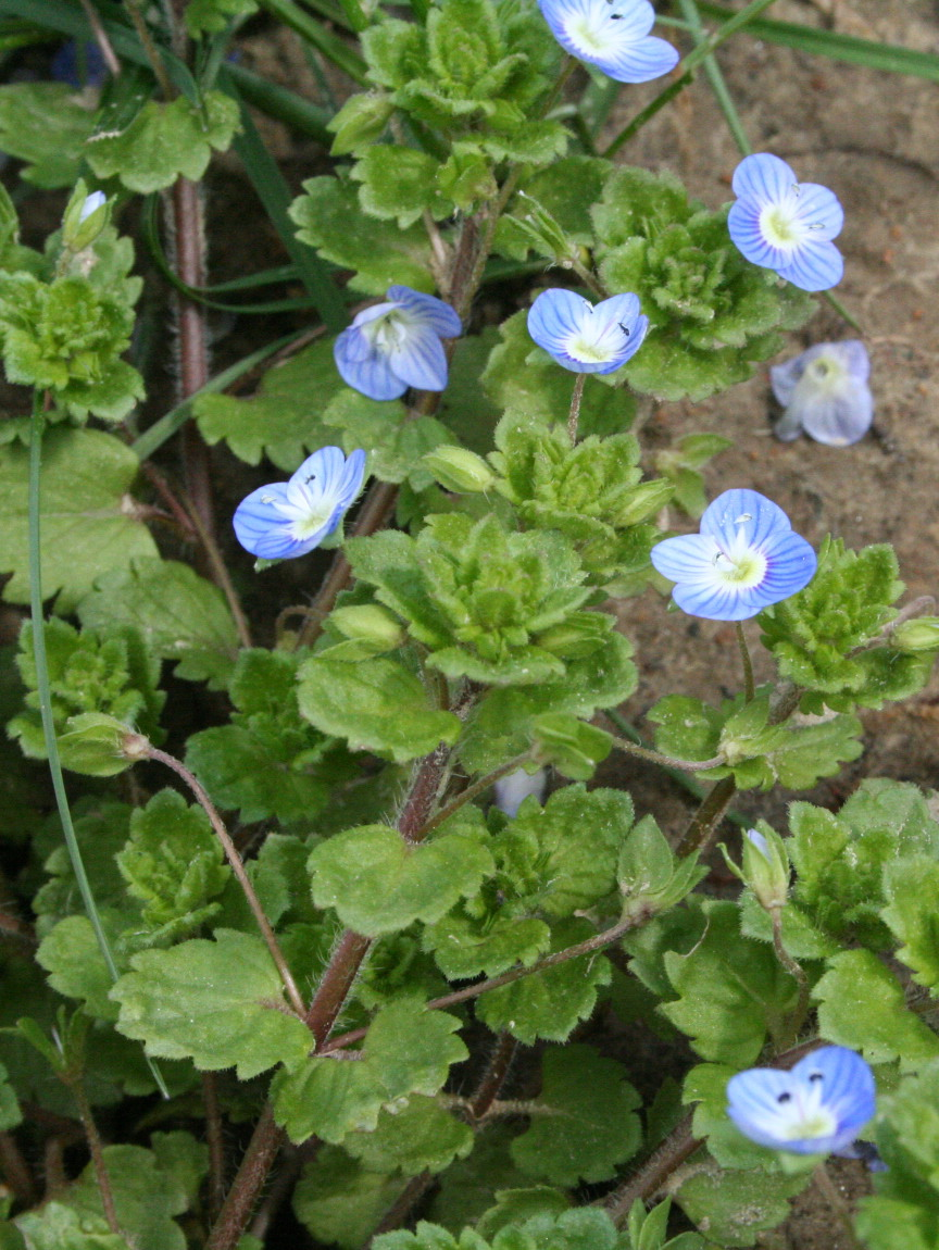 Veronica persica (Large Field Speedwell) in a park near Paris.